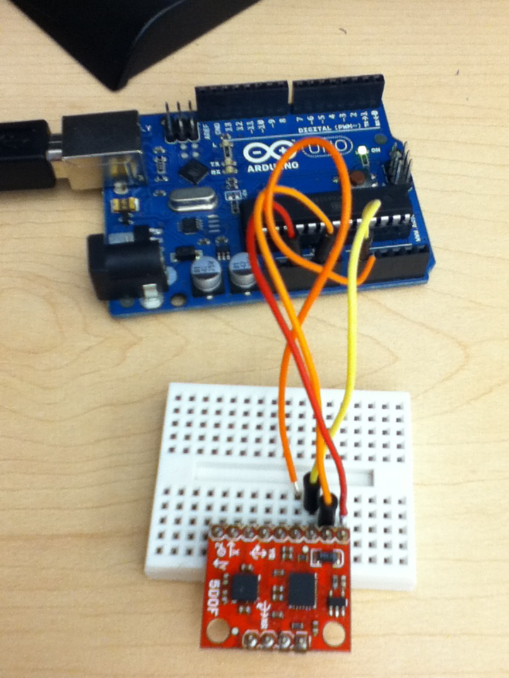 This depicts a 5 degree of freedom sensor and Arduino Uno after rewiring.